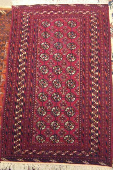 A carpet